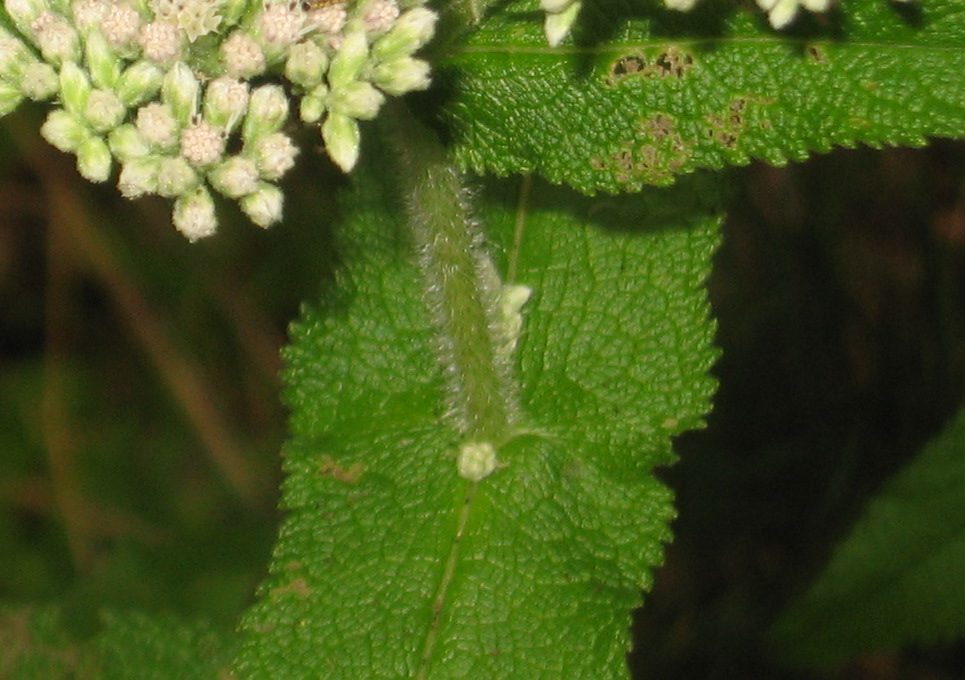 Photograph of a boneset plant, Eupatorium perfoliatum, taken on Aug 22, 2007 in Northfield, New Hampshire. An unidentified bee and a caterpillar are on the blossoms. I didn't notice the caterpillar while taking the picture. The bee was quite sluggish (the air temperature was around 60°F).